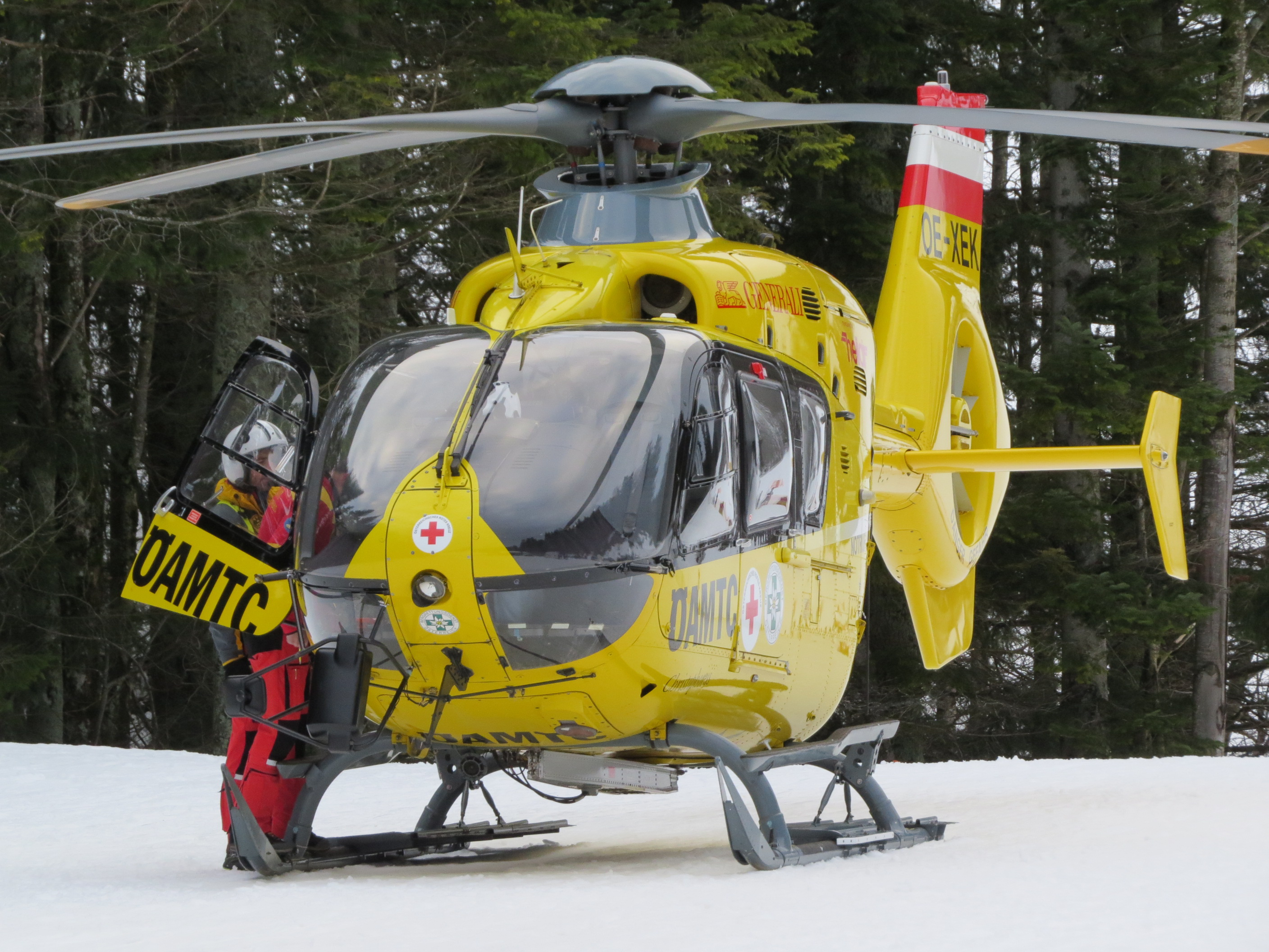 ÖAMTC Christophorus 14 Airbus H135 OE-XEK in alpine operation in Annaberg, Lower Austria